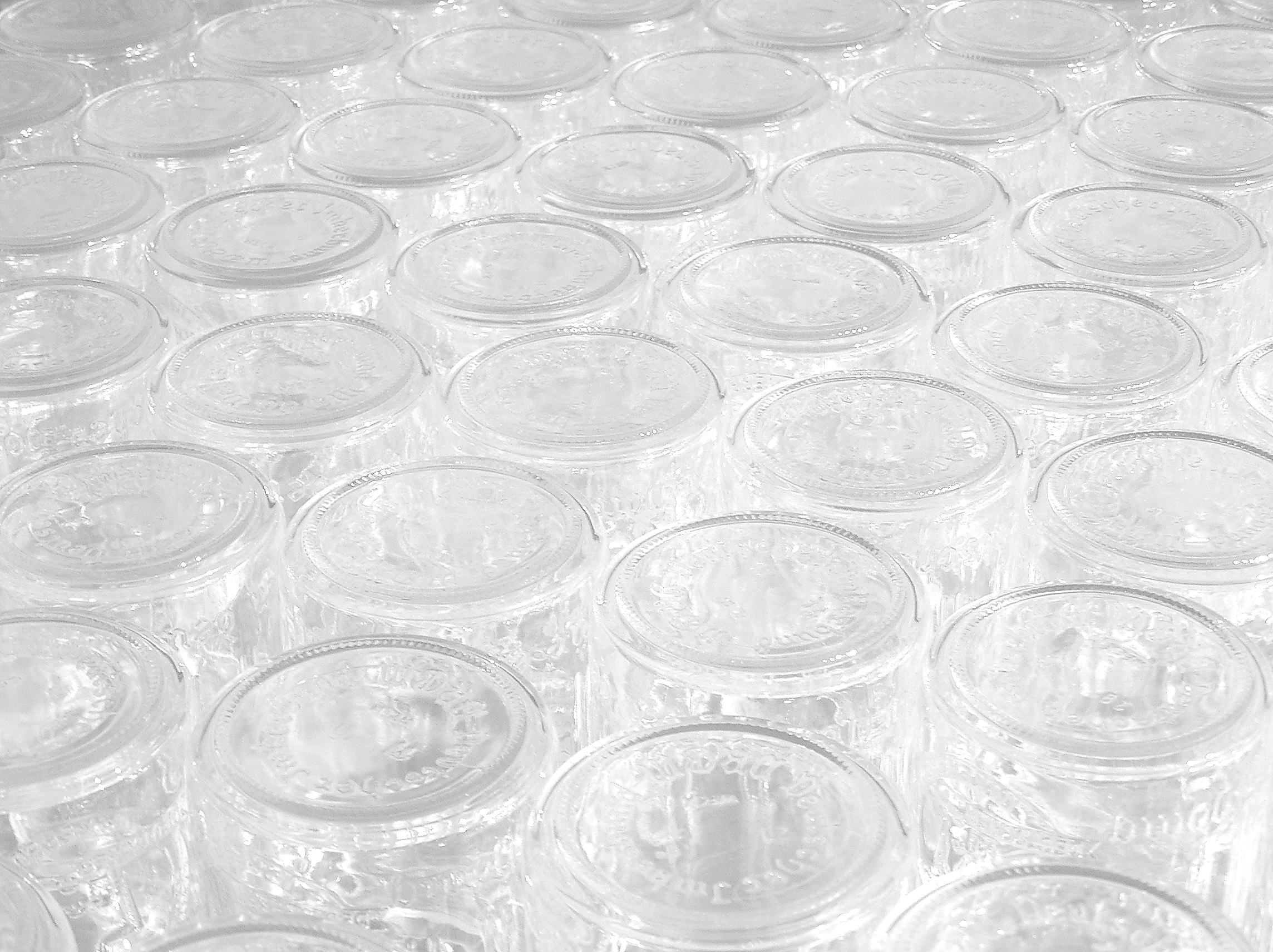 Jars of glass ready to be filled with honey after the honey harvest